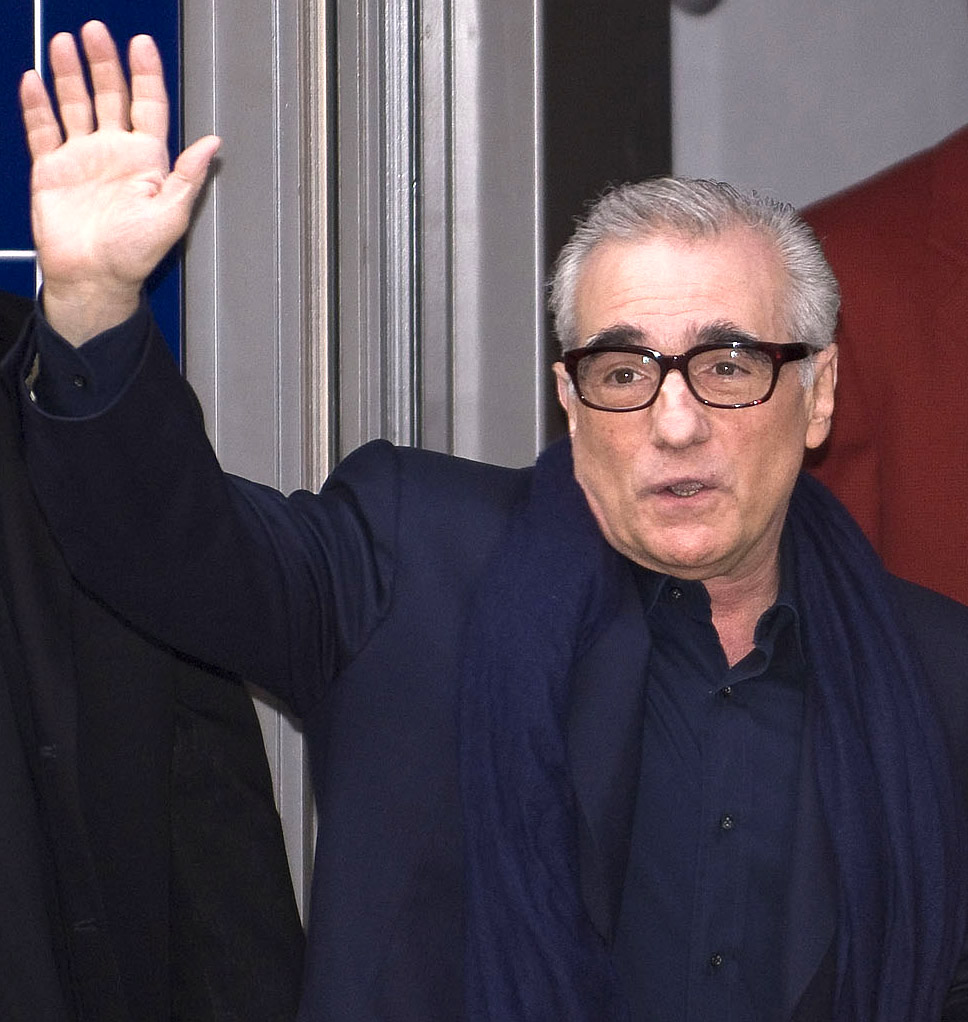 Director Martin Scosese, arrival for press conference of "Shine A Light" at the Hyatt Hotel, Potsdamer Platz, Berlin